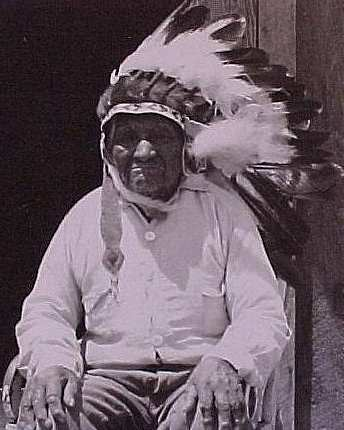 Captain Sam. Yosemite-Mono Lake Paiute. Captain Sam was married to Paiute Susie Sam. Their children and grandchildren were Yosemite-Mono Lake basketmakers. Captain Sam was believed to be about 140 years old at the time. External links Hetchy Hetchy Indians and their history Yosemite Indian chiefs The Indians of Yosemite - Yosemite Native American history Yosemite Indian Discussion Messageboard